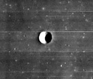 Sarabhai lunar crater - image LOIV 085 H3